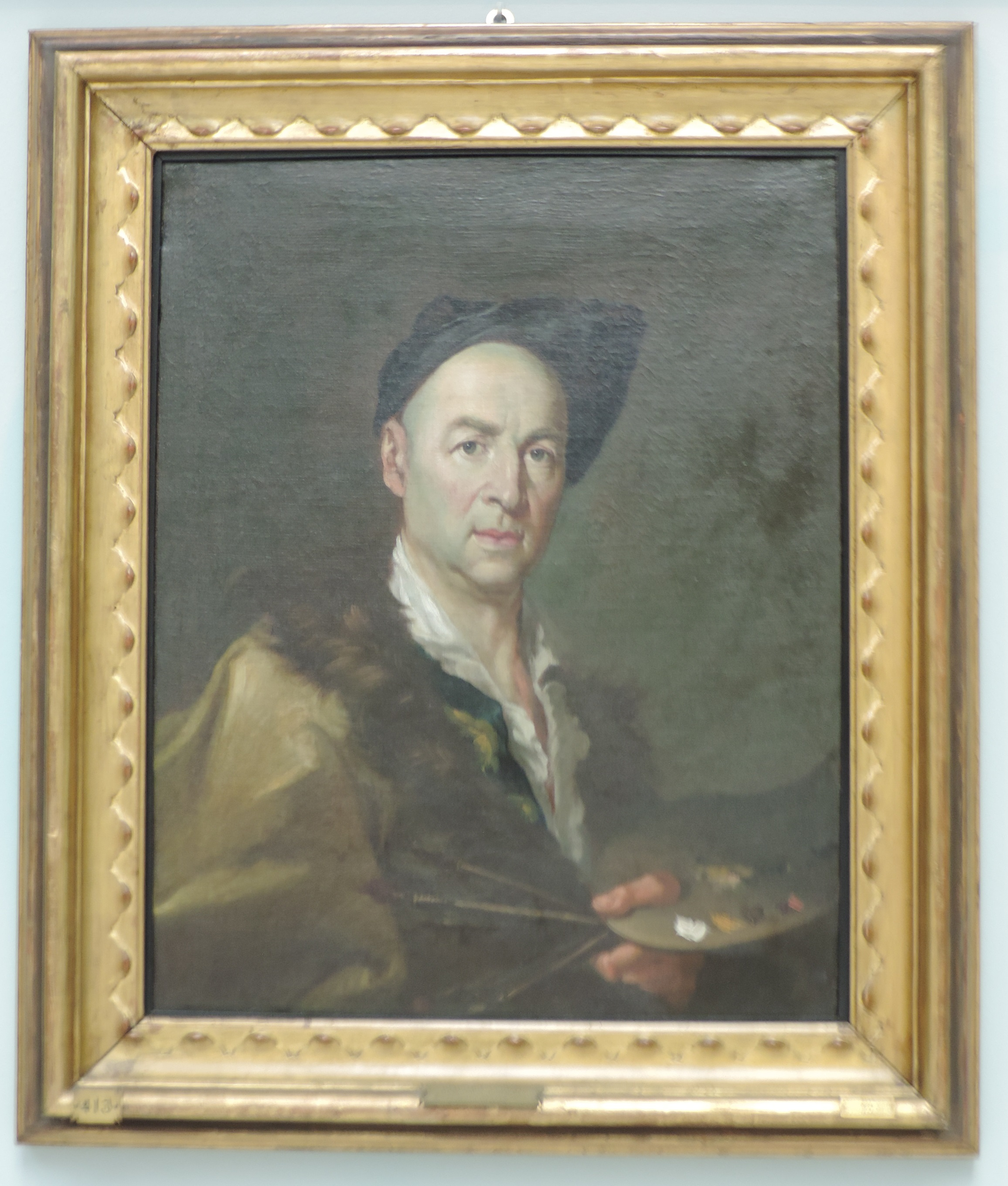 Self-portrait of the Italian painter Giacomo Ceruti (1698 –1767). Exhibit of the Pinacoteca di Brera in Milan, Italy.